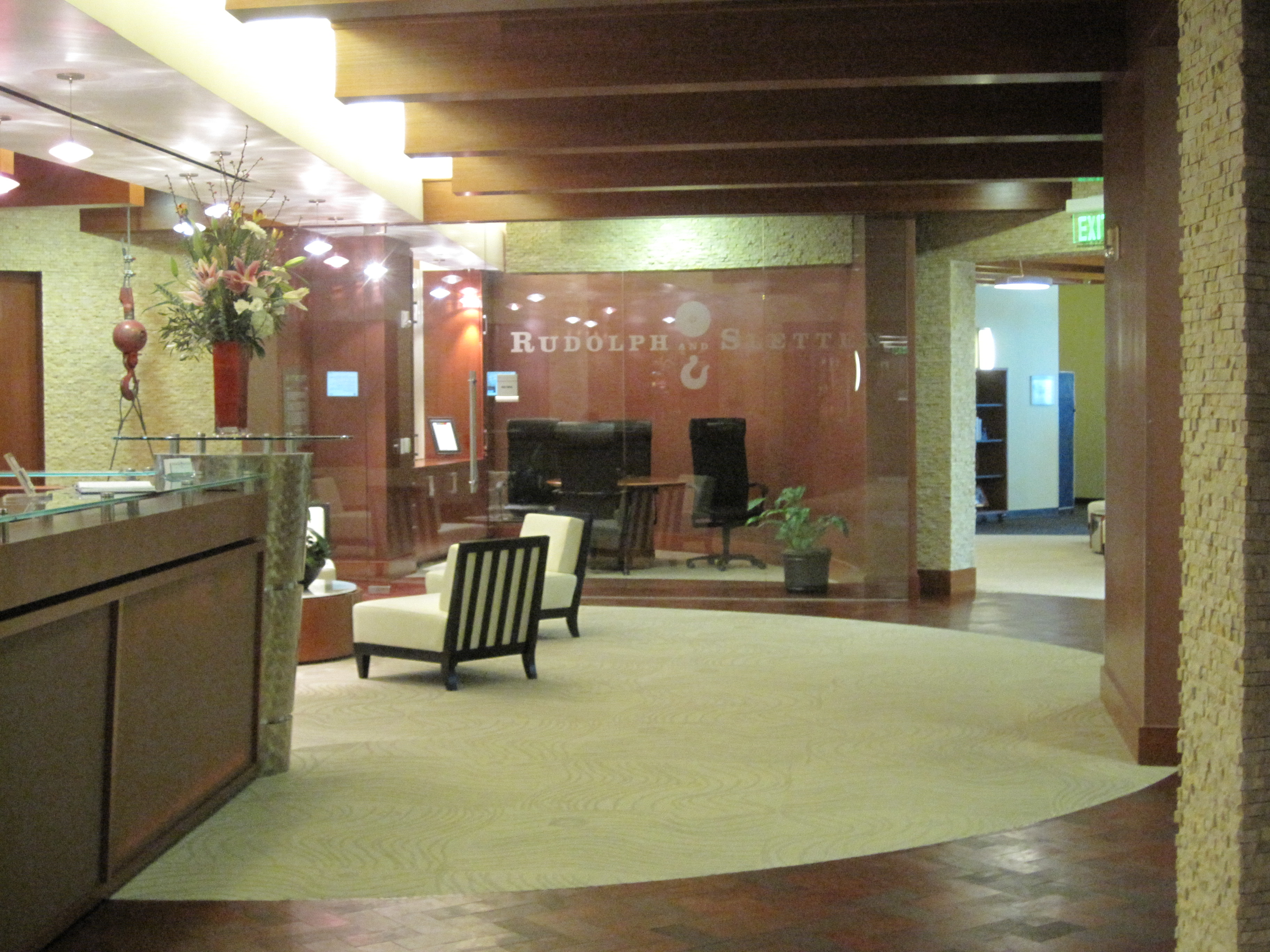 The headquarters of Rudolph & Sletten at 1600 Seaport Boulevard, in Redwood City, California.